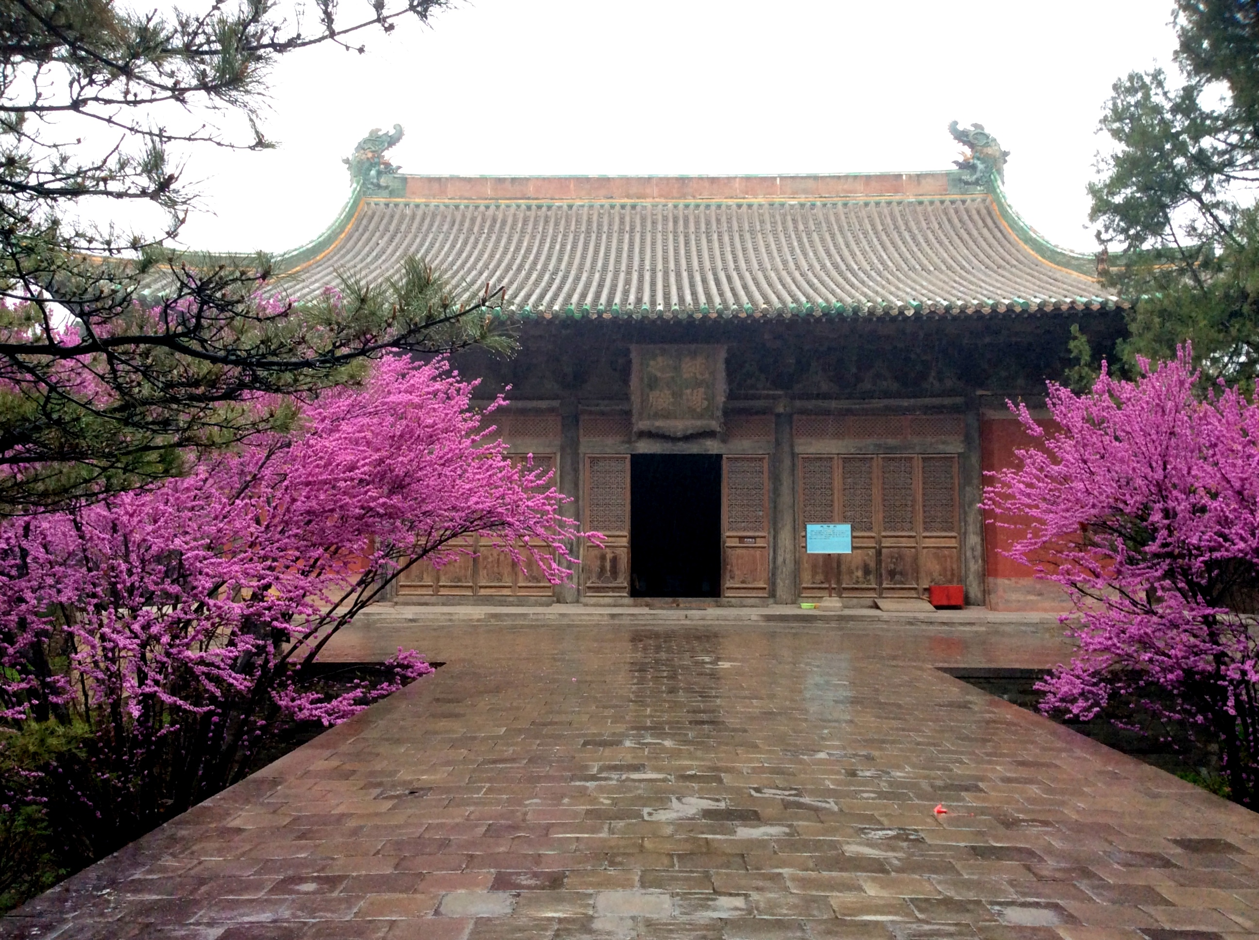 Yongle Palace - Chunyang Hall in Ruicheng, Shanxi